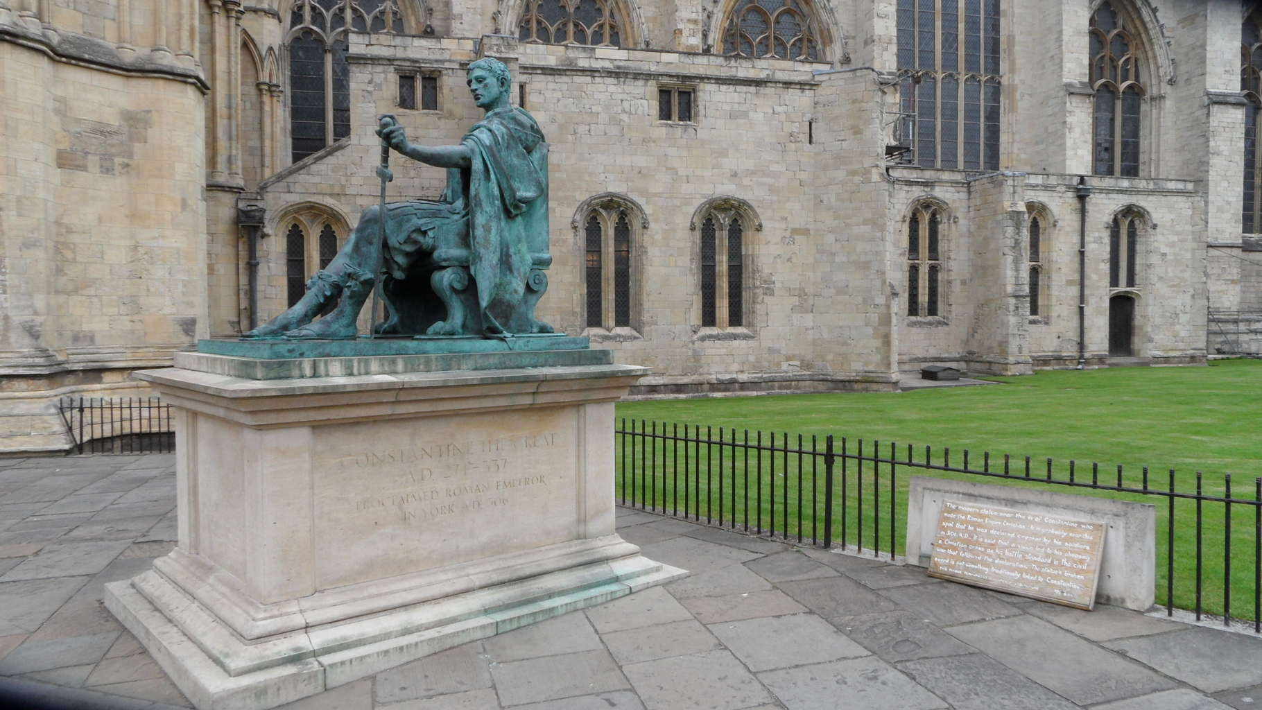 Statue of Constantine I in front of Minster of York